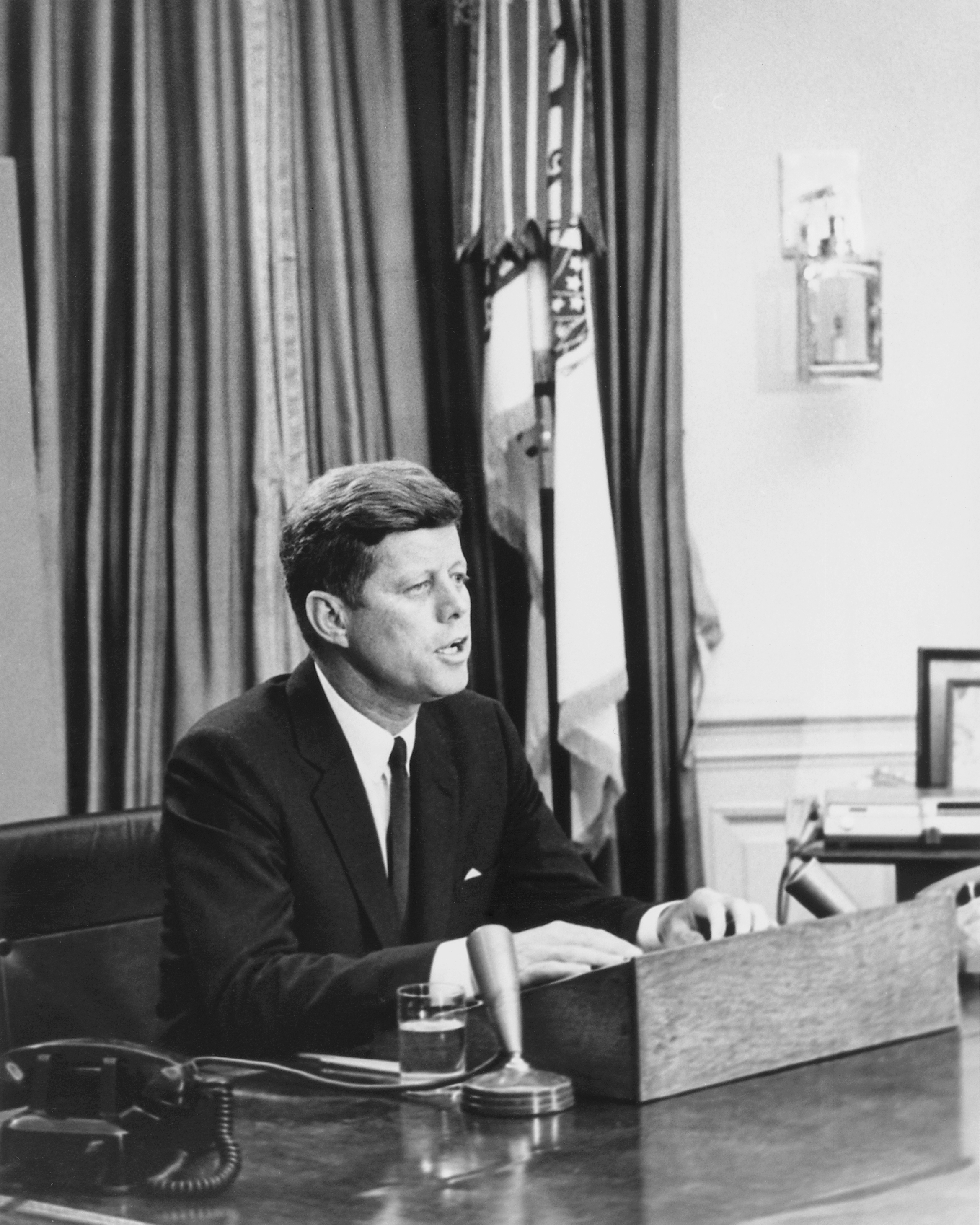 United States President John F. Kennedy addresses the nation on civil rights via television, speaking from the Resolute desk in the Oval Office of the White House, Washington D.C.